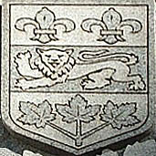 Former Coat of Arms of Quebec (from the Wilfrid Laurier monument, Montreal). Photo by Montrealais.